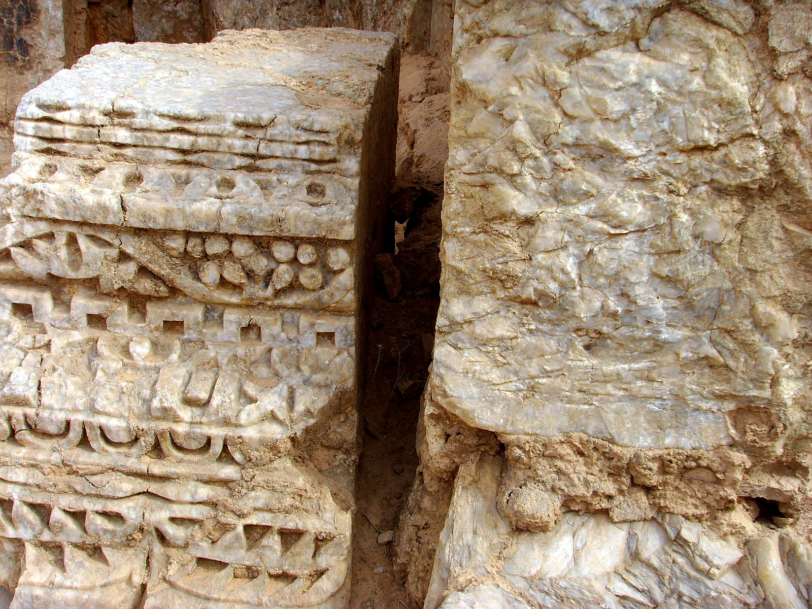 Alabaster in Resafa